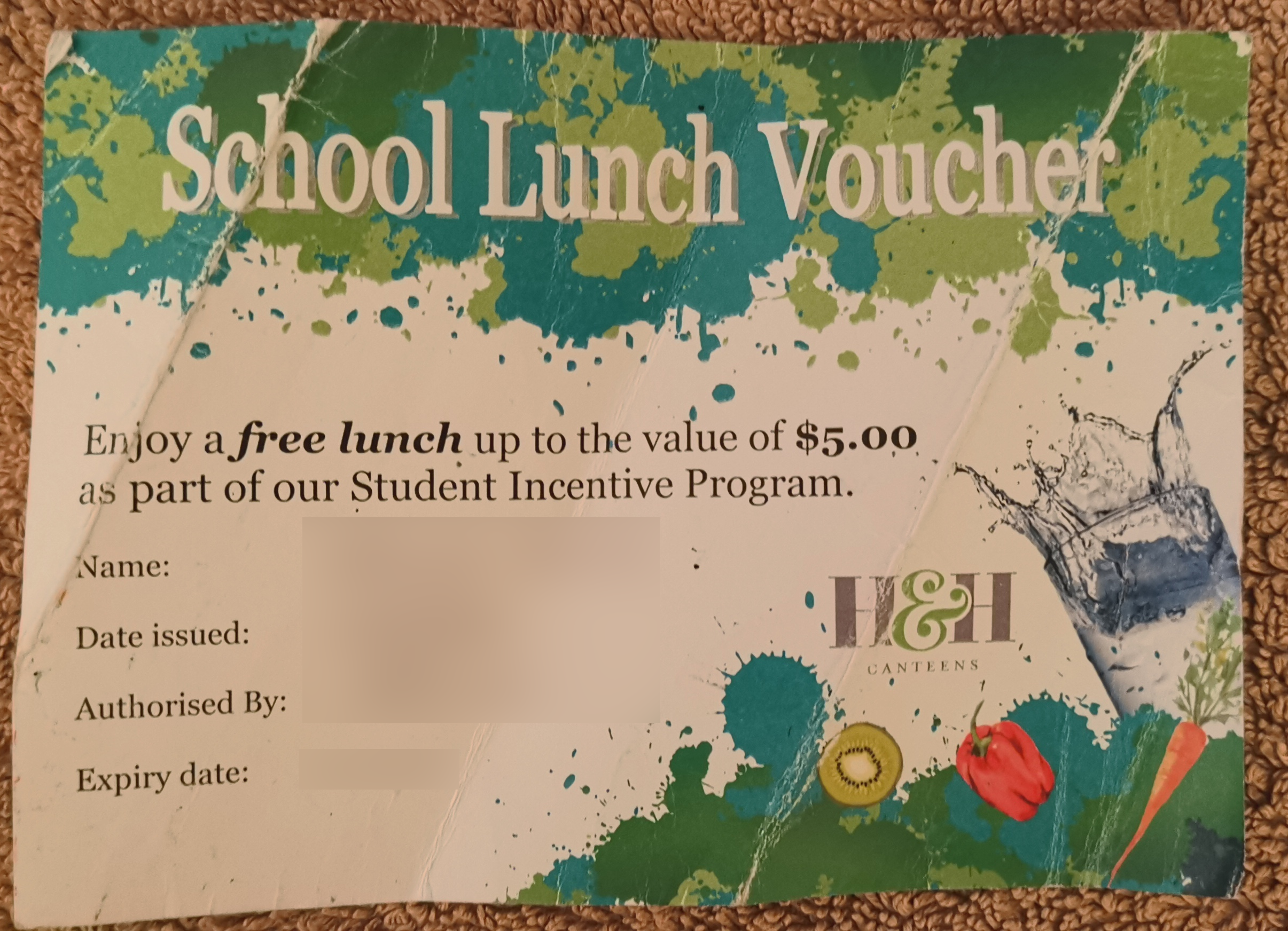 Lunch voucher used at Patterson River Secondary College